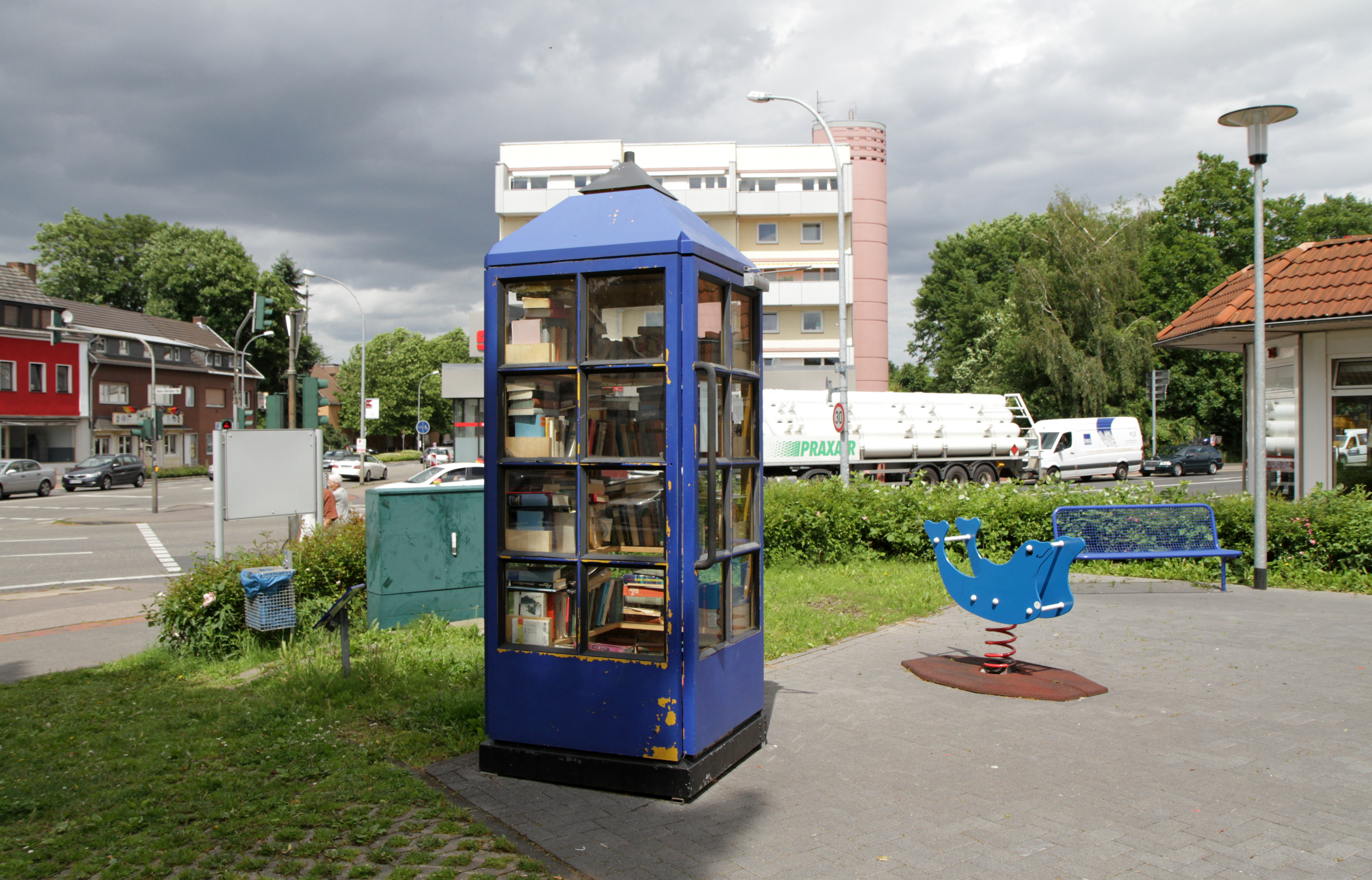 Public bookcase, located in Hürth-Hermülheim/Germany, Luxemburger Straße